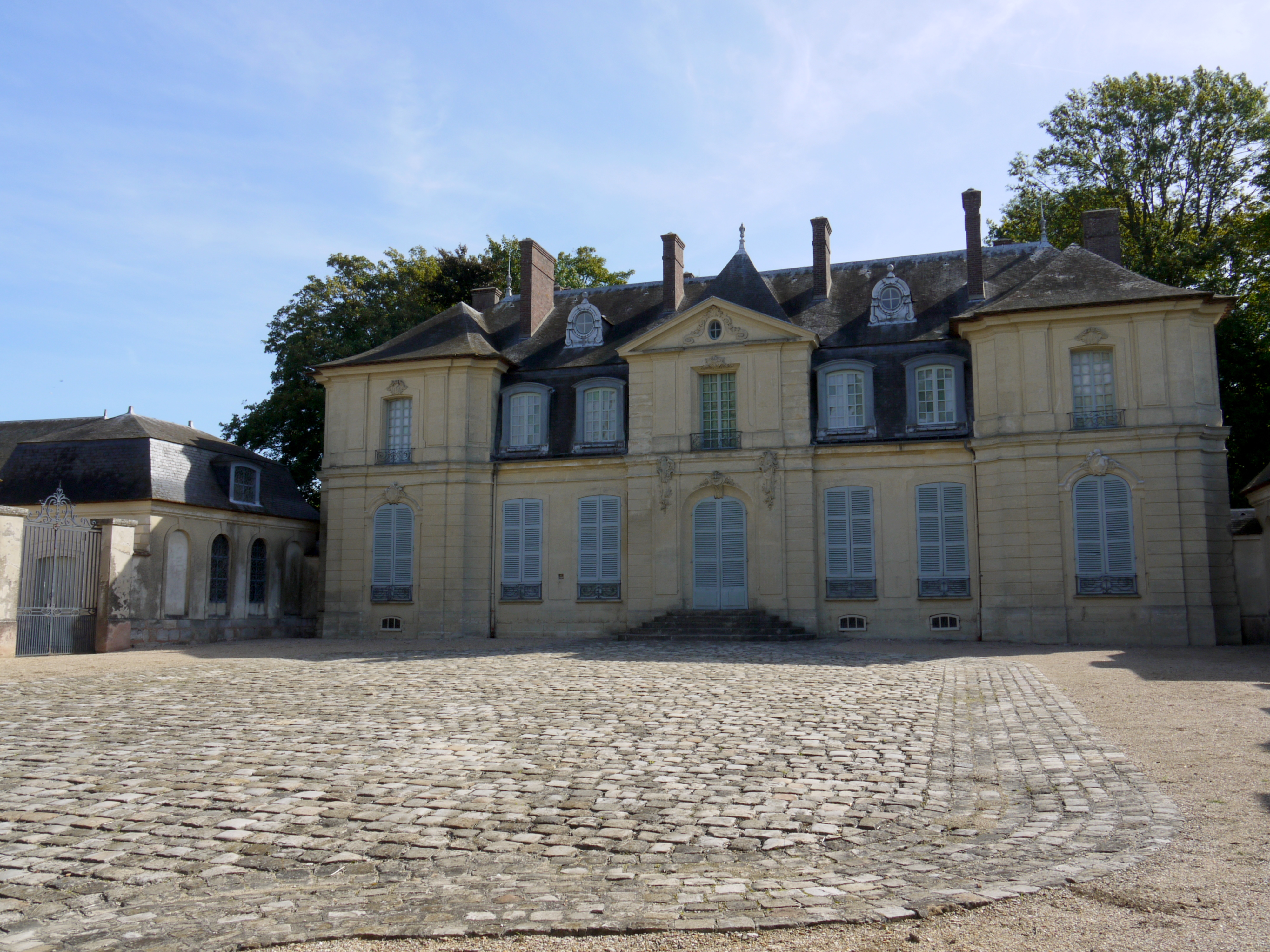 Castle of Jossigny, Jossigny, Seine et Marne, Ile de France, Castle of the XVIIIe century